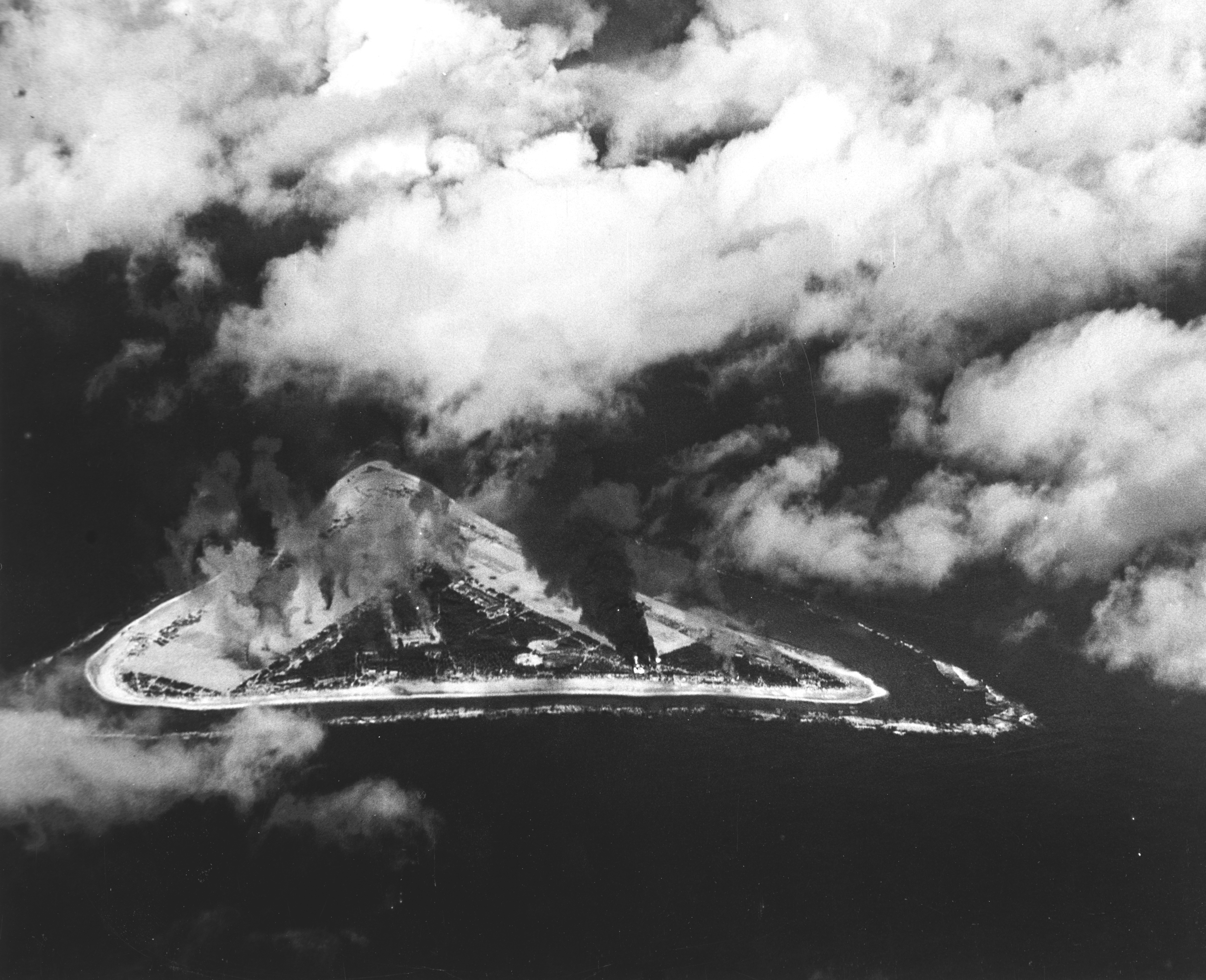 Aerial view attack on Minamitori Island (formerly Marcus island) on 31 August 1943. The attack was carried out by a task force consisting of the U.S. aircraft carriers USS Essex (CV-9), USS Yorktown (CV-10), and USS Independence (CVL-22), the battleship USS Indiana (BB-58), two cruisers, and ten destroyers. The photo was taken from a plane from the USS Yorktown.